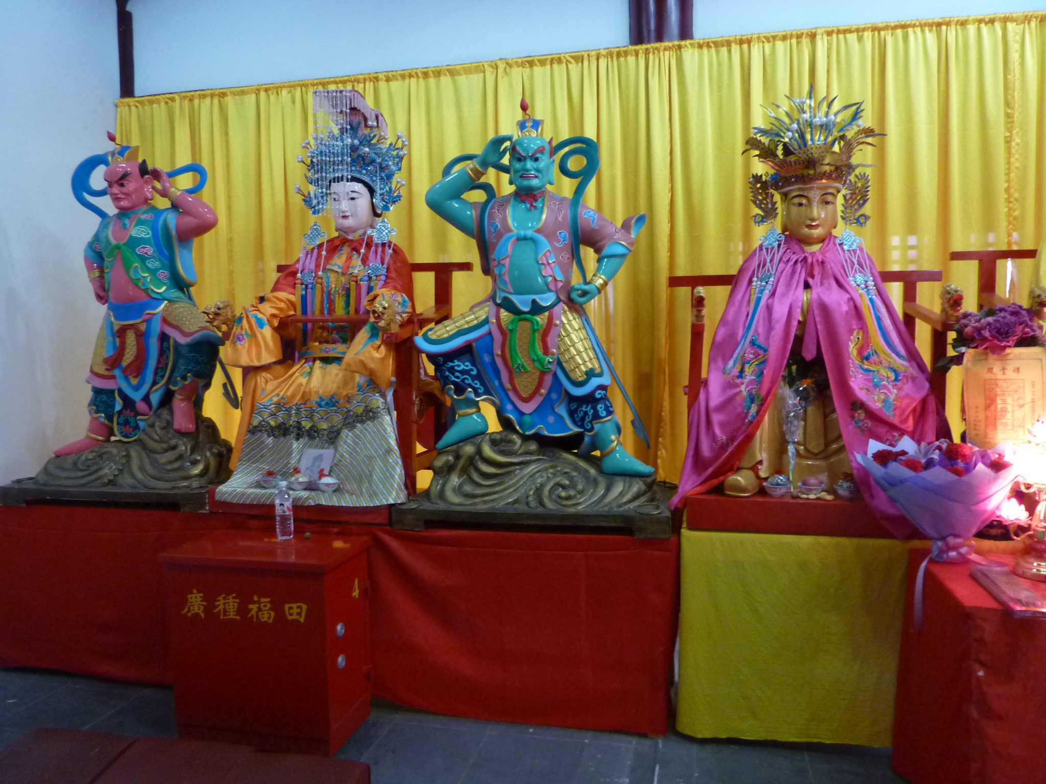 Images of divinities in Tianfei Gong, Nanjing.